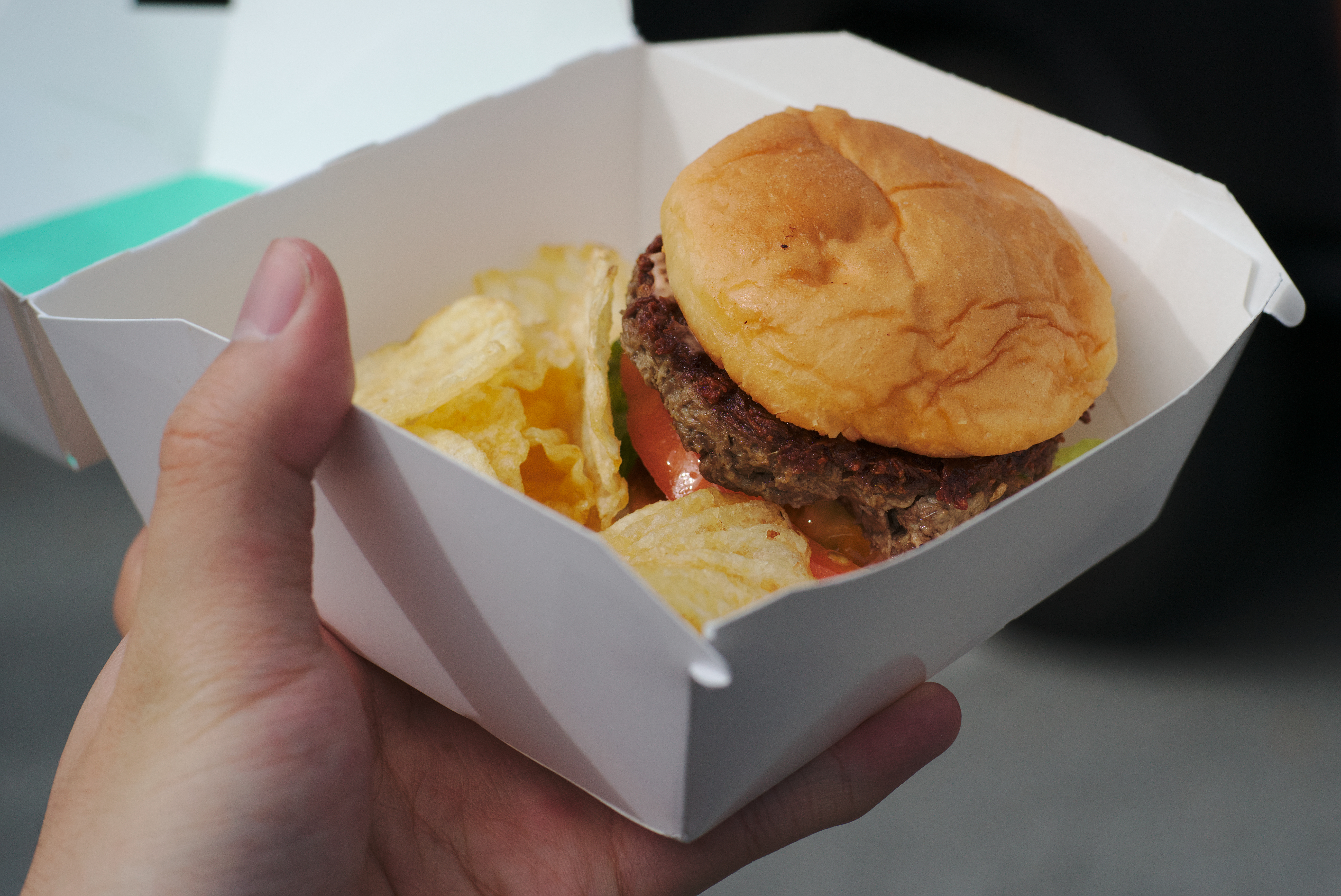 The Impossible Burger is a plant-based vegan burger created by Impossible Foods. On 2016-11-06, free small burgers were given out for promotional purposes [1]. This was one of them. I thought it tasted pretty good. In my opinion, it has more umami than real meat; however, the consistency is somewhat different from real meat --- the Impossible Burger seemed to have a crispy crust on the outside and is softer on the inside.